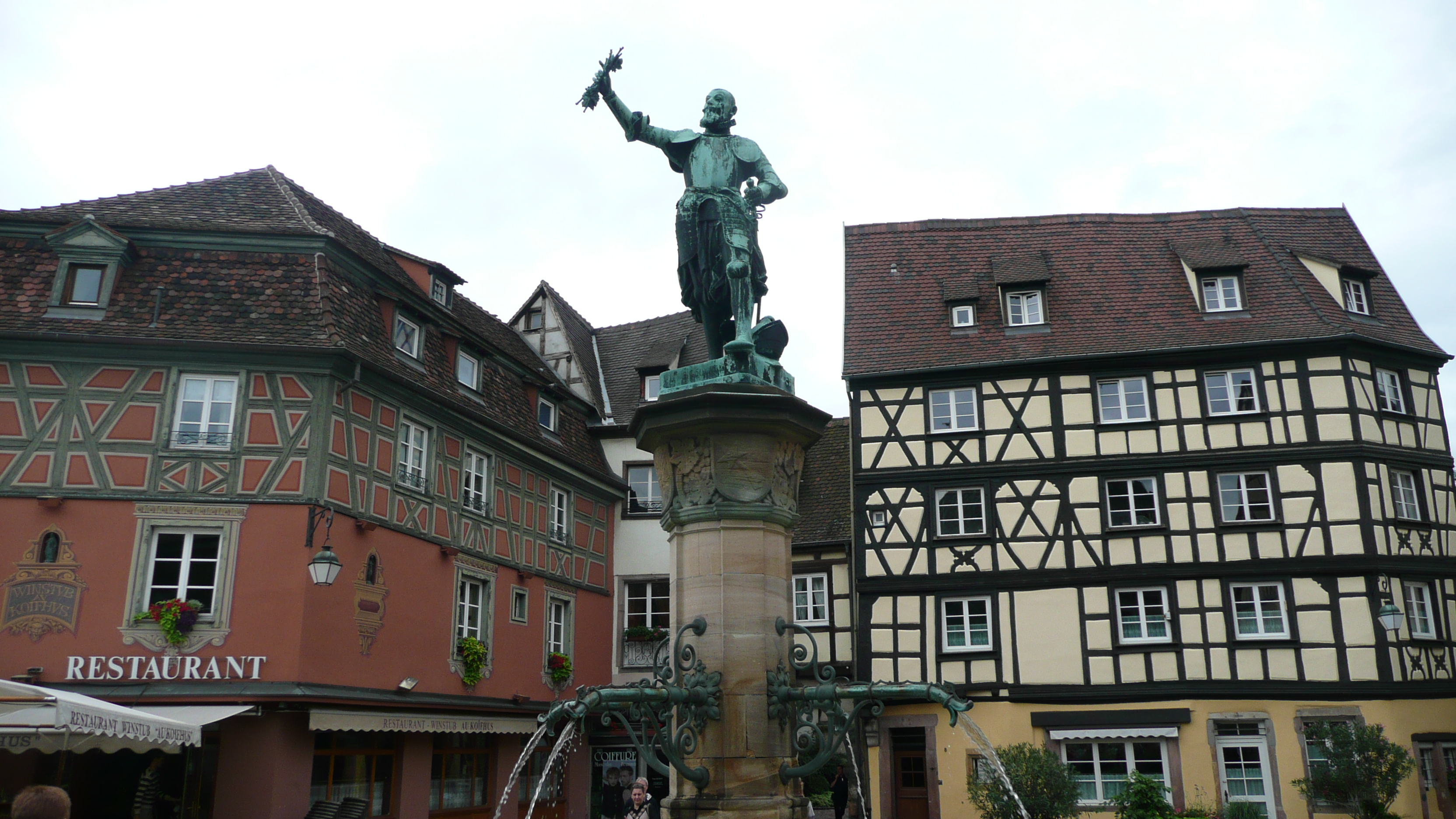 Schwendi Fountain in Colmar